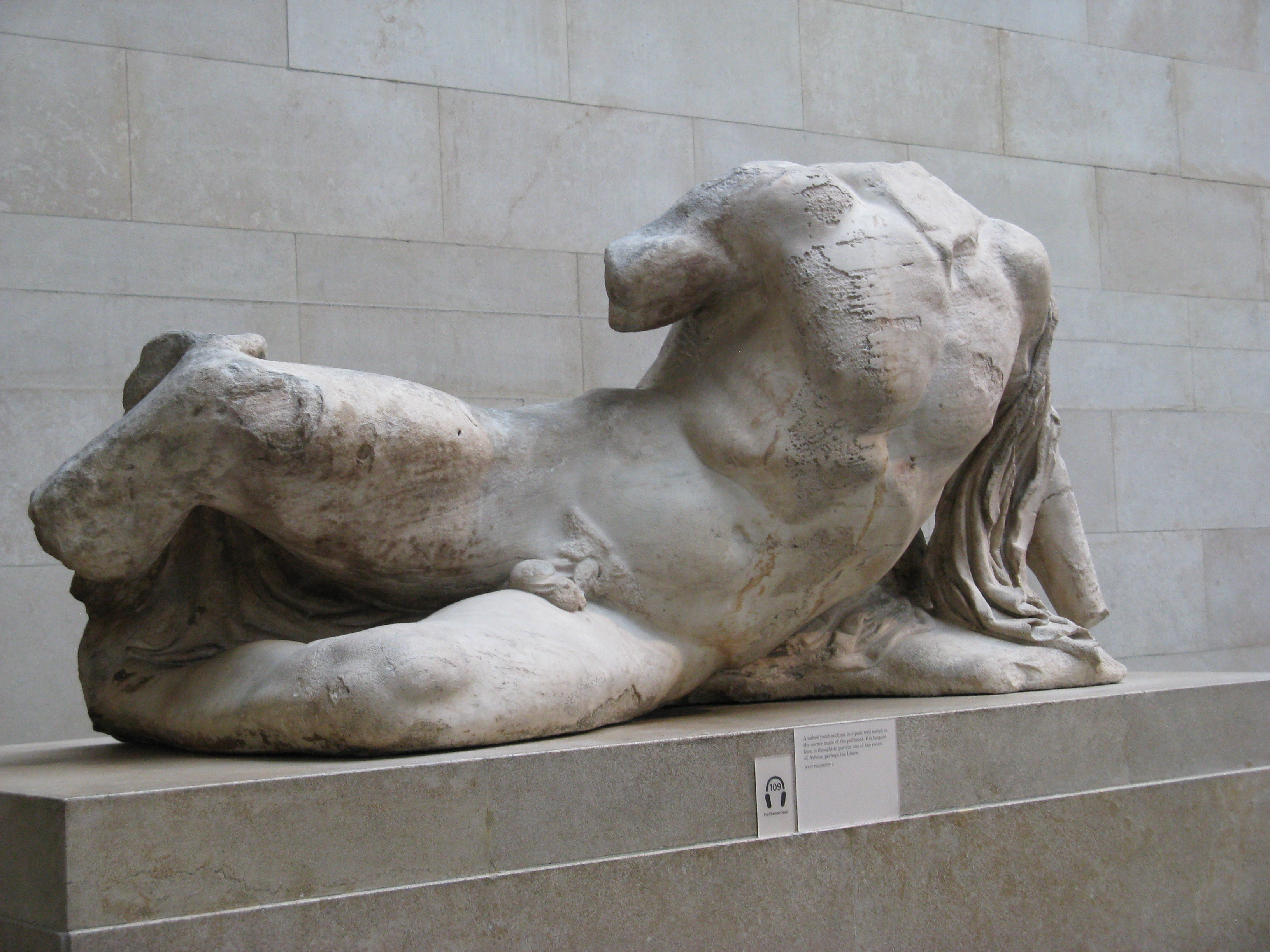 Figure of a river god from the left corner of the pediment, usually identified as Ilissos but perhaps Eridanos West pediment at British Museum.